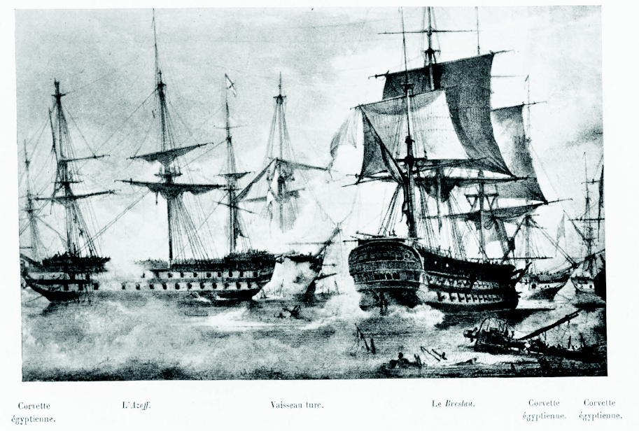 Russian ship Azov and french ship Breslau against four ottoman ships.